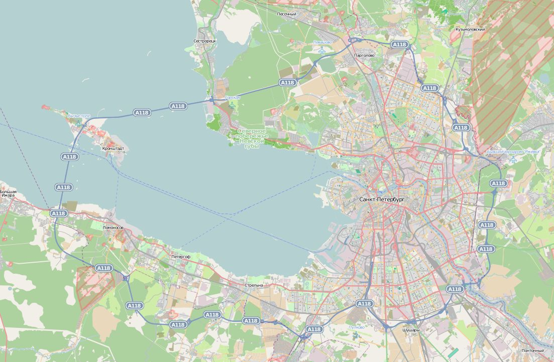 Saint Petersburg Ring Road